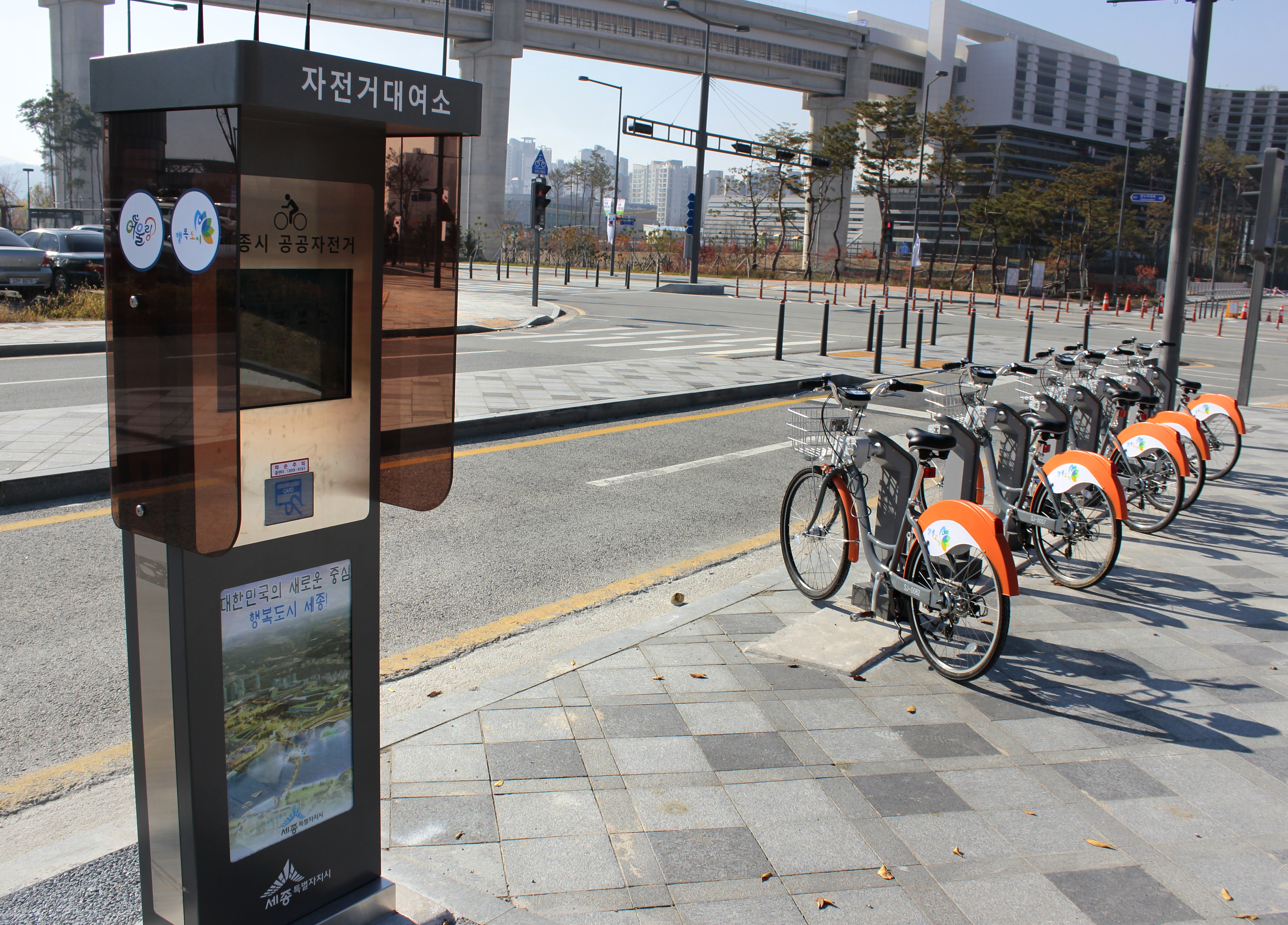 Sejong Public Bicycle Ouling at Government Complex Sejong